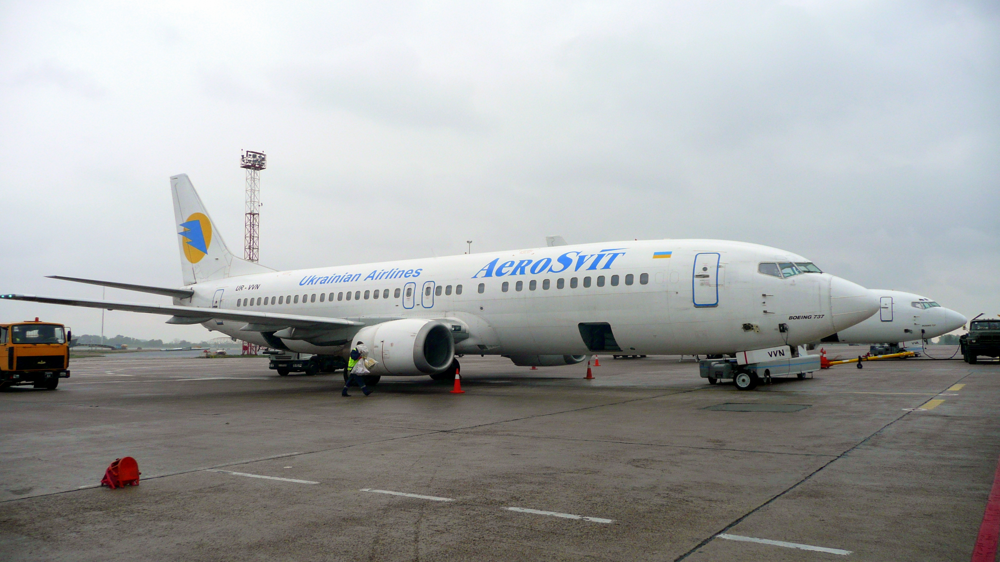 Aerosvit Boeing 737 at the International airport Kiev